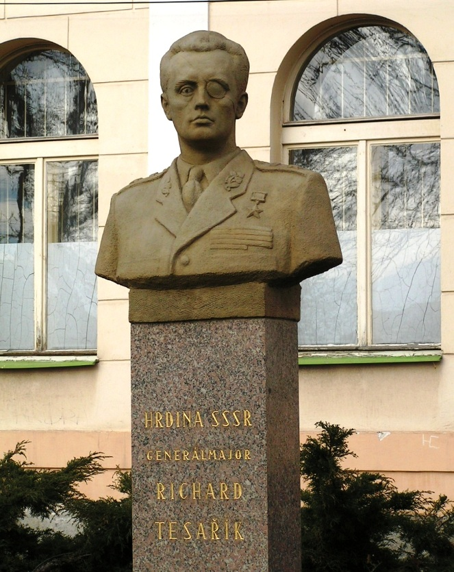 Bust of General Richard Tesařík, Příbram.